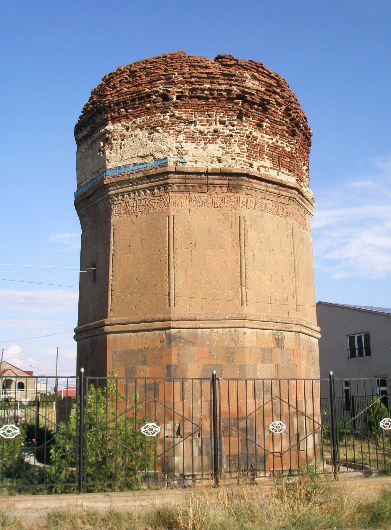 Funerary tower of Argavand